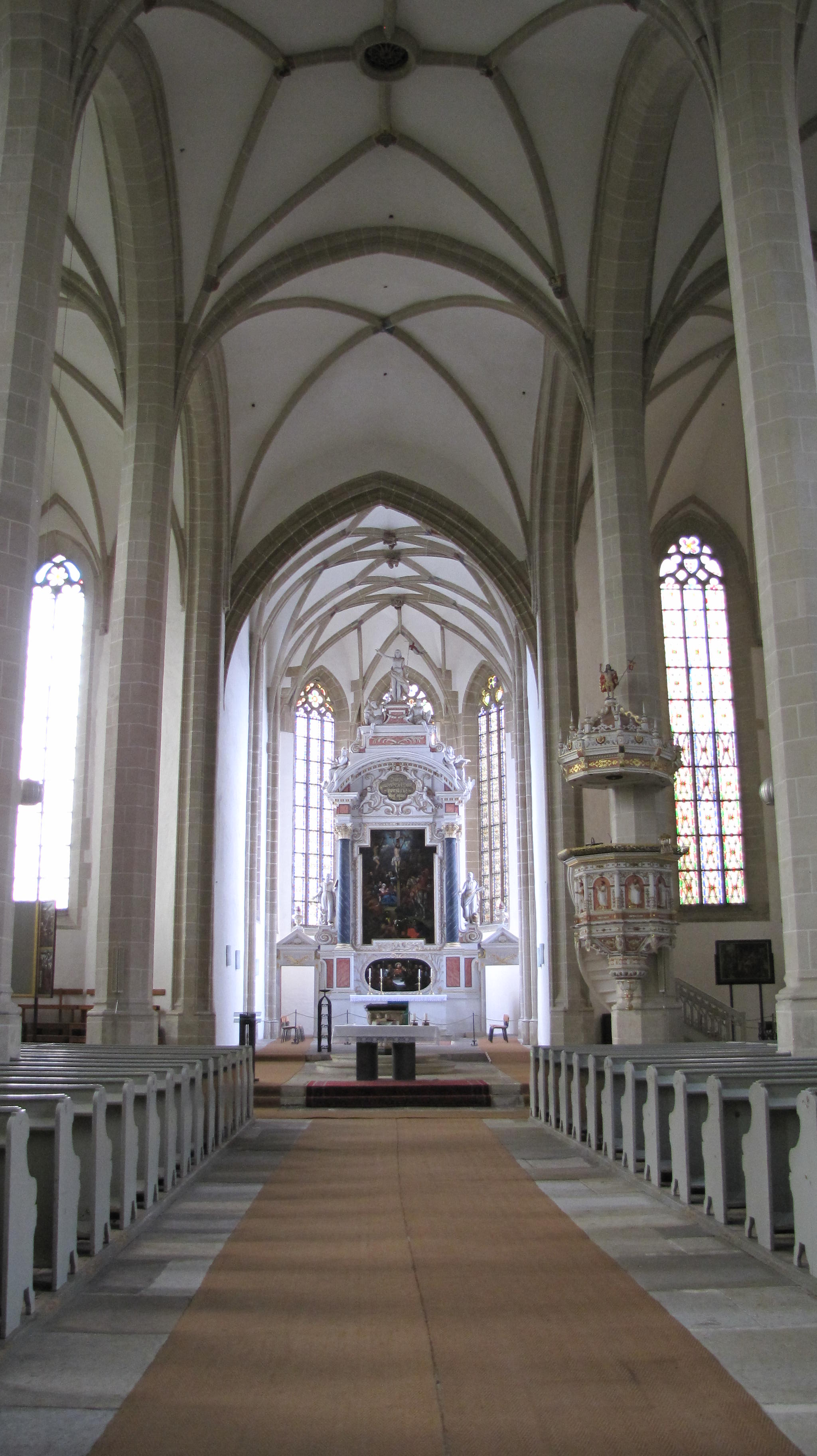 Interior view of Marienkirche, Torgau